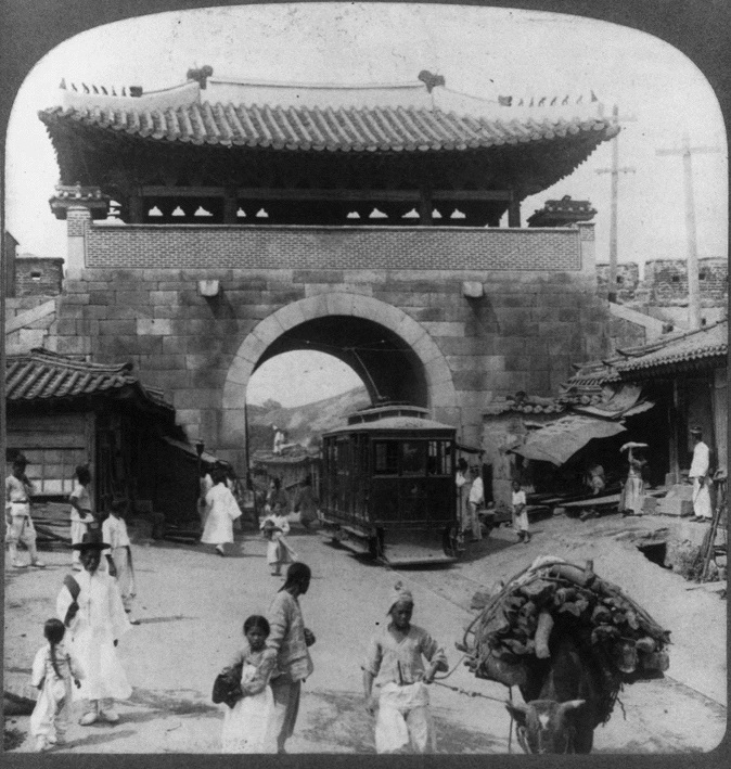 Donuimun Gate, also known as West Gate or Seodaemun, Seoul, South Korea. Photographed 1904 by Horace Grant Underwood.